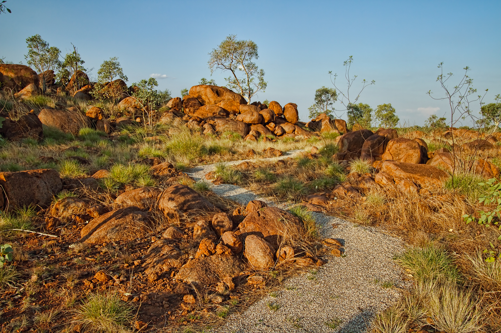 The Devil's Pebbles near Tennant Creek, Northern Territory (Australia). I did some HDR processing to bring out more of the details in the shadows and rocks.